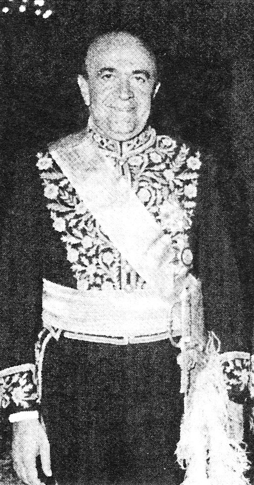 Amir Abbas Hoveyda